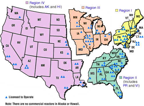 Map of the United States by Nuclear Regulatory Commission (NRC) Regions and locations of licensed plants